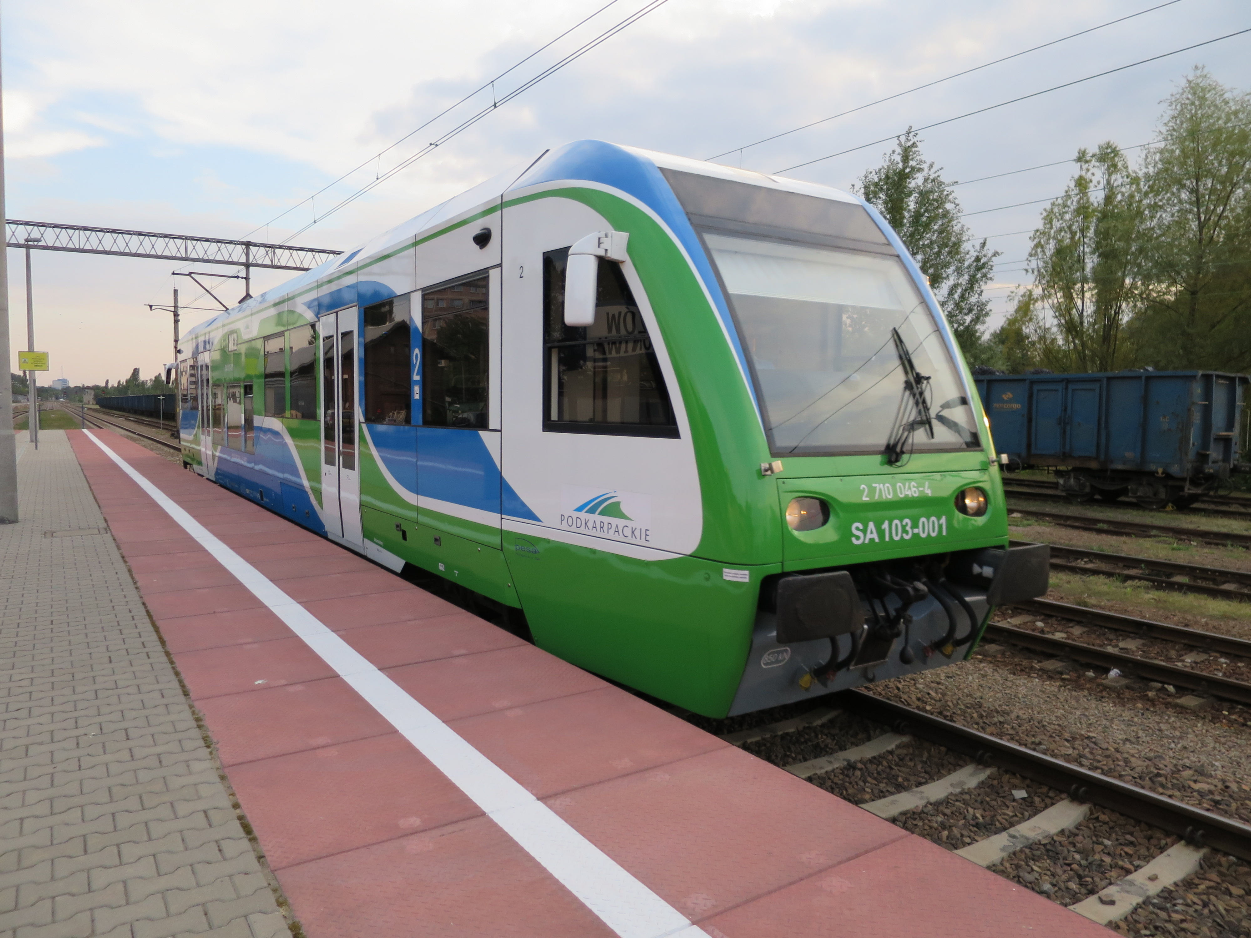 Rzeszów Staroniwa This photo was taken during Railway Wikiexpedition 2015 set up by Wikimedia Polska Association in cooperation with Fundacja Grupy PKP. You can see all photographs in category Wikiekspedycja kolejowa 2015.